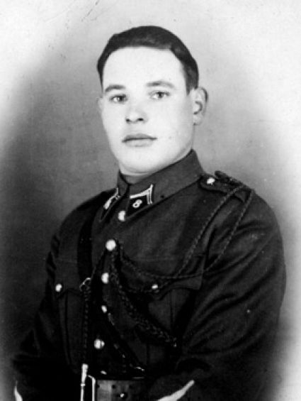 Yves Guellec (1913-1945), member of the Free French Forces, Compagnon de la Libération